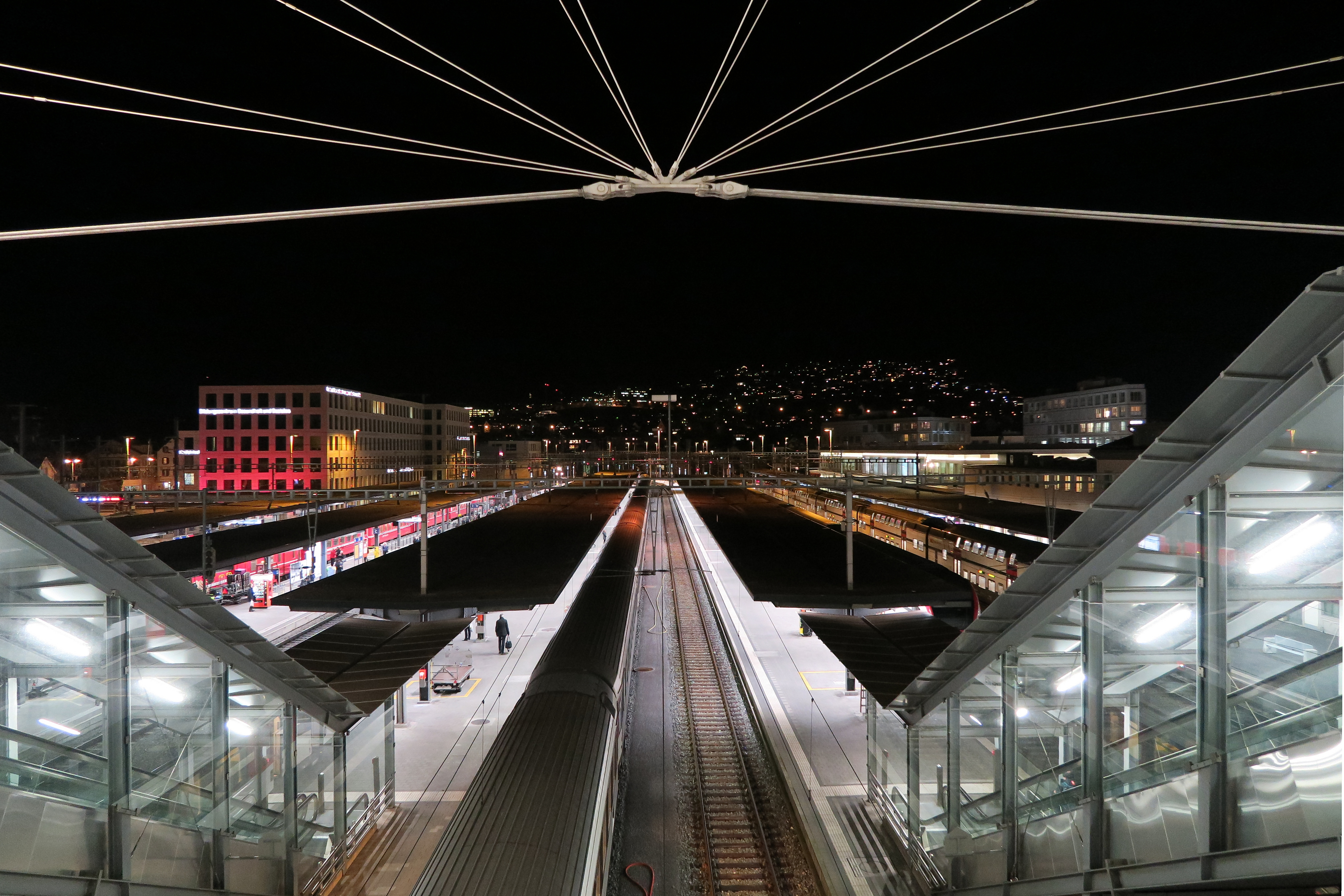 Shared railway station of the Rhaetian Railway (l.) and the Swiss Federal Railways (r.). In the station itself the different gauges are separated. But outside there are intersections with different gauges and mixed gauge tracks. Switzerland, Dec 22, 2014.